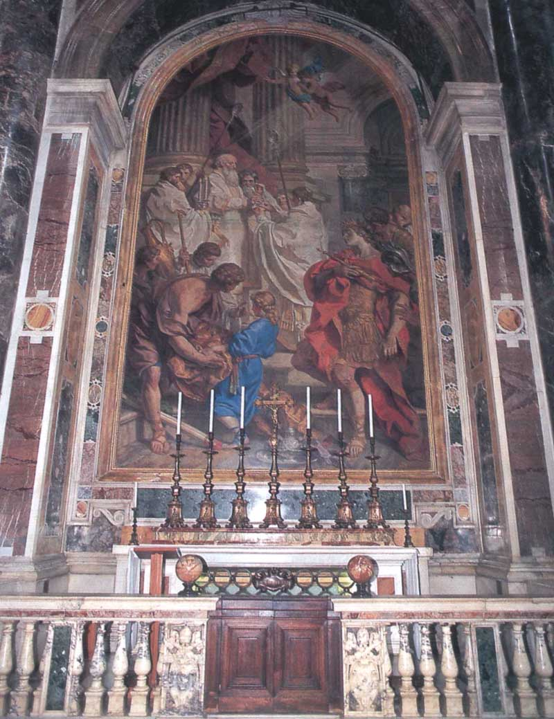 Altar of Saint Basil, in Basilica of S. Peter, at Vatican. The painting that served as the cartoon for this altarpiece was commissioned from Pierre Subleyras, and the mosaic was made from 1748 to 1751 by Guglielmo Paleat, Giuseppe Ottaviani, Enroco Enuo, and Nicolo Onofri. Under the altar, tomb of Saint Josaphat Kuntsewycz